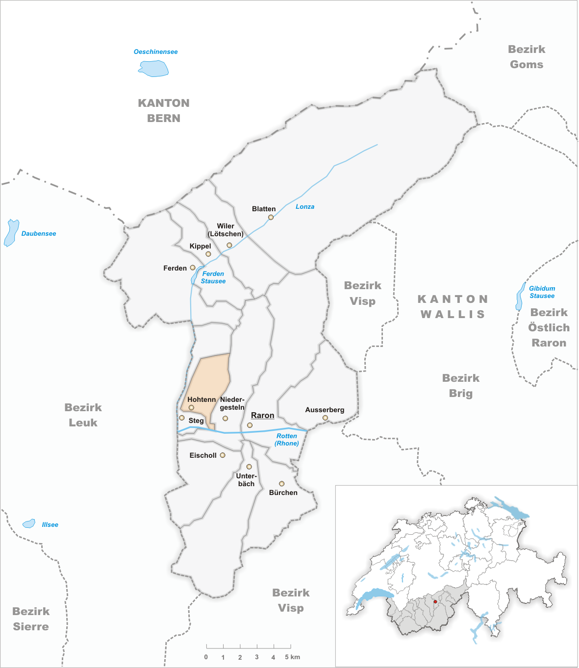 Municipality Hohtenn